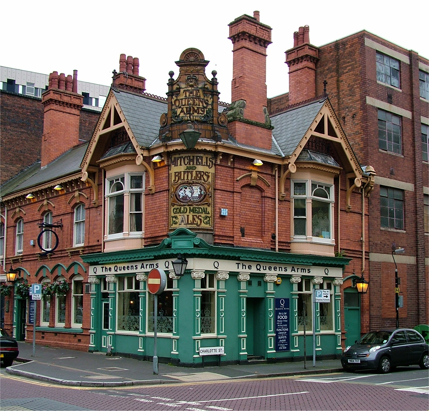 The Queens Arms pub - Charlotte Street - Birmingham. Despite the signage, this is no longer owned by Mitchells and Butlers.